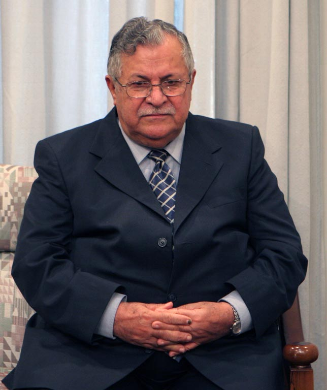 Jalal Talabani meet with Ali Khamenei - November 22, 2005 (007)